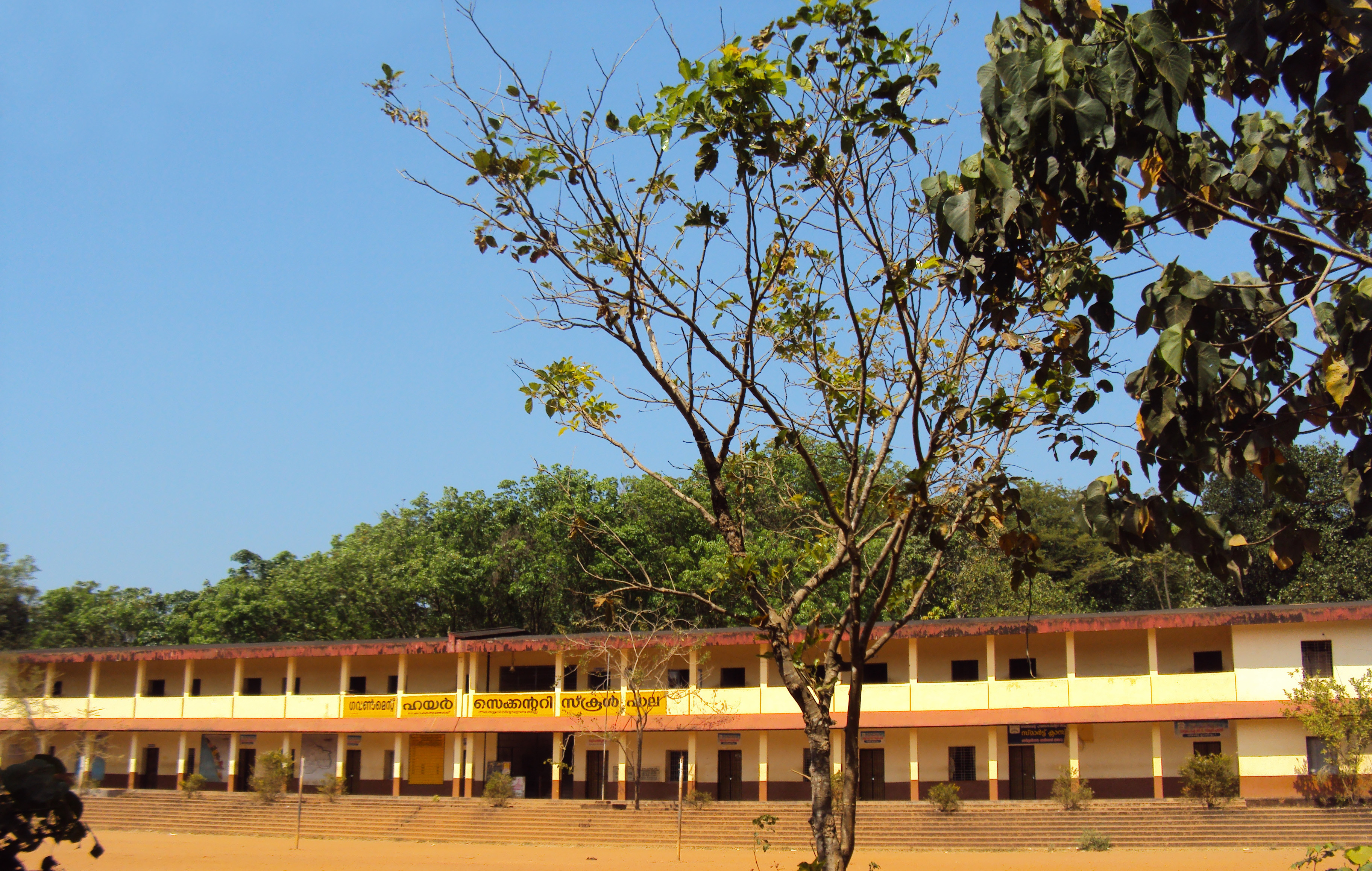 Government HIgher Secondary School, Pala, Kannur